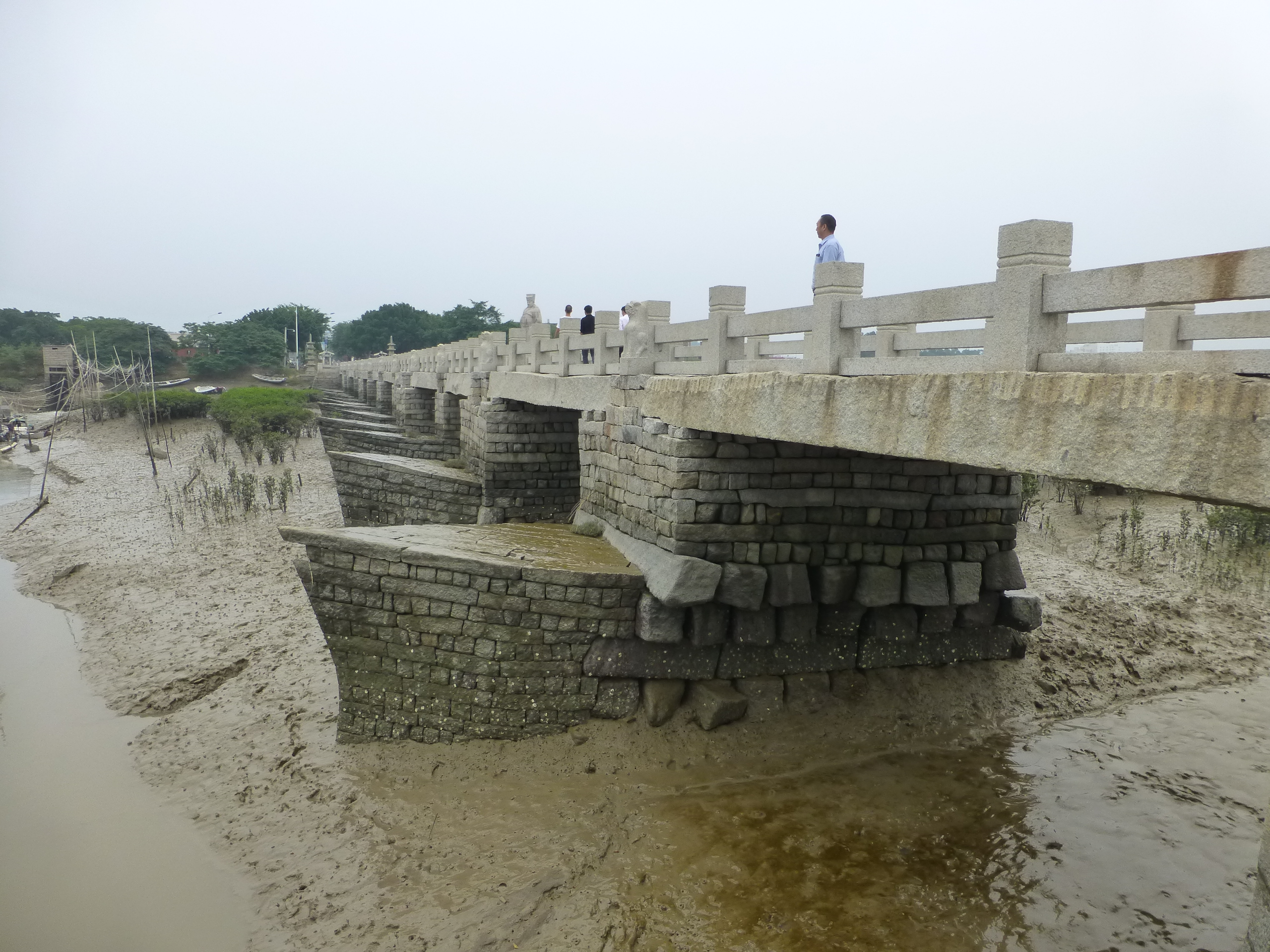 Luoyang Bridge and its surroundings, Hui'an County, Fujian.